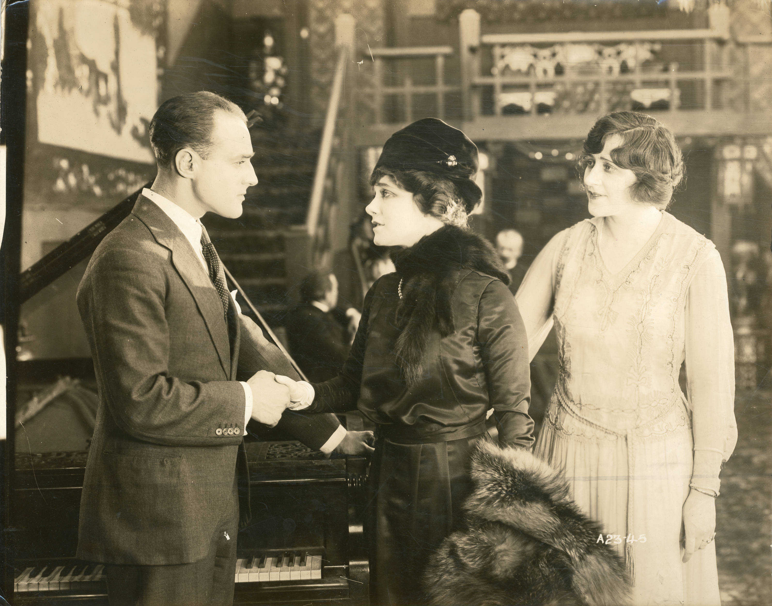 A scene from the American drama film The Song of Songs (1918), which played at the Strand Theater, Seattle. Date stamped Ap. 7, 1918. Includes Elsie Ferguson (center). Subjects: motion pictures, actresses